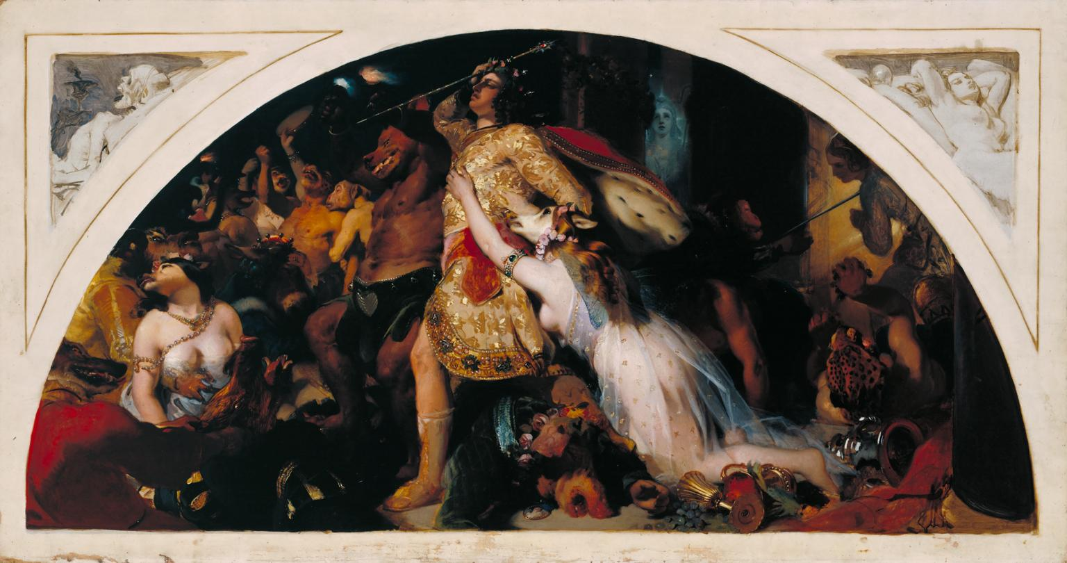 In 1843 Queen Victoria's husband, Prince Albert, commissioned a number of painters to decorate a small garden pavilion in the grounds of Buckingham Palace. The artists were to select scenes from the masque Comus by the seventeenth-century poet John Milton, and subjects from the work of the Romantic novelist and poet Walter Scott. Like Boydell's Shakespeare Gallery (see Lear and Cordelia displayed above) it was hoped that the project would help encourage British history painting. This is Edwin Landseer's preliminary sketch, showing the rout of Comus and his company of revellers. The pavilion was pulled down in 1928.